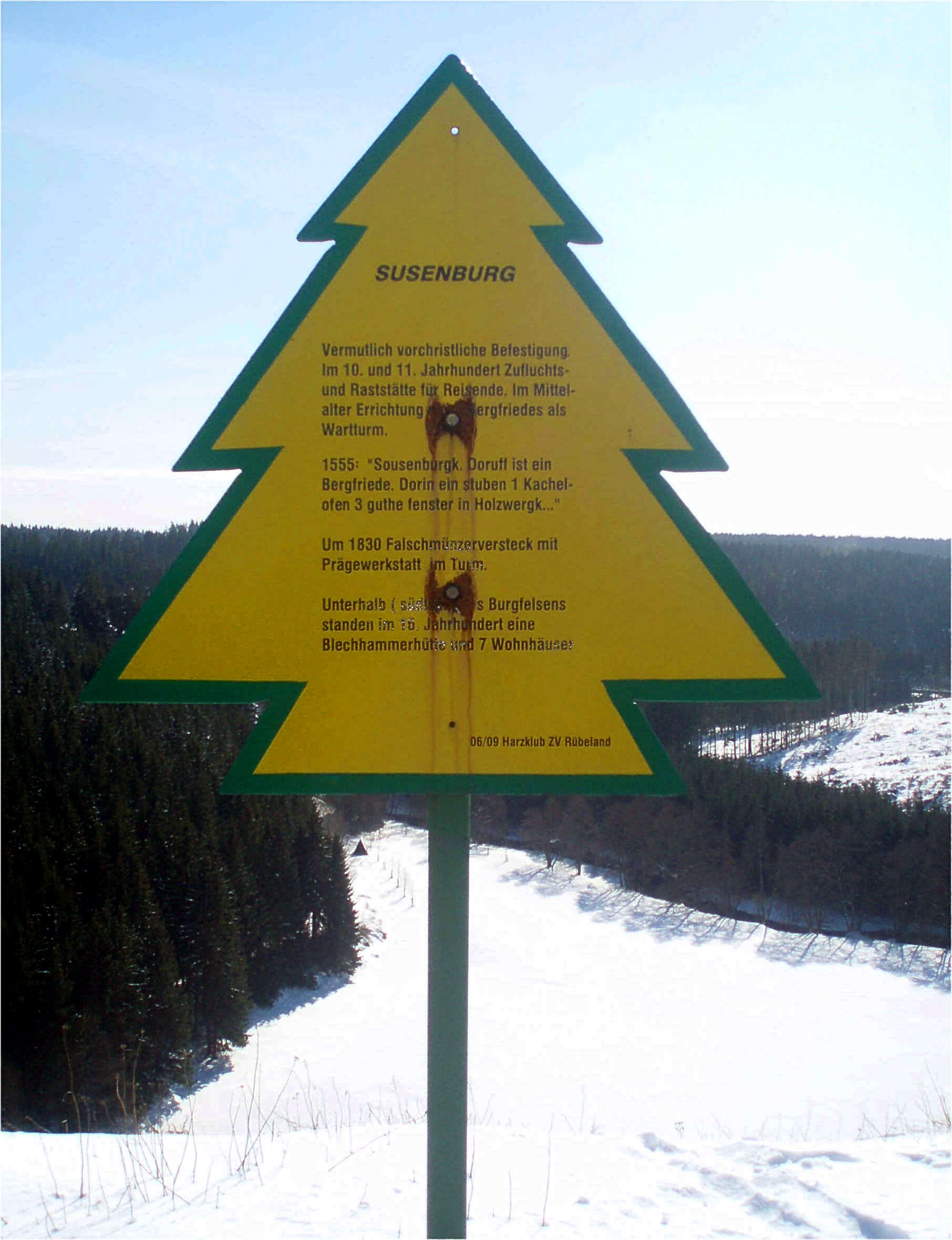 On the top of the Susenburg in Harz